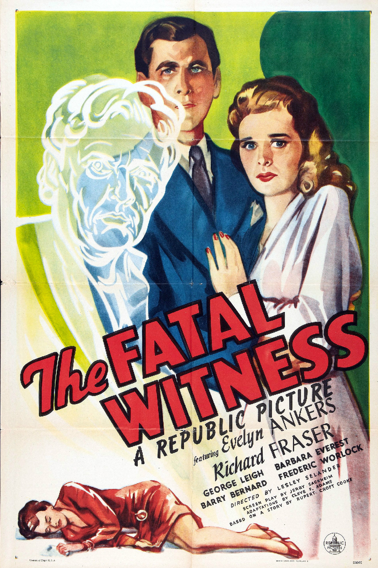 Poster for the 1945 film The Fatal Witness. There are no copyright marks. At bottom left is Country of origin USA. At bottom right is Morgan Litho Crop. Cleveland, O.--they printed the poster--28802.